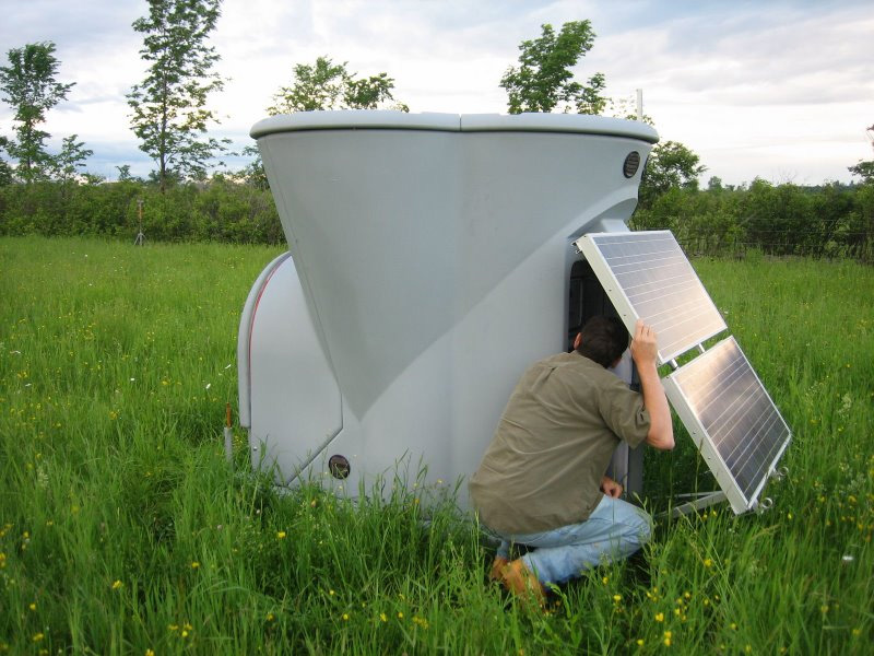 A portable SODAR wind profiling system called TRITON.